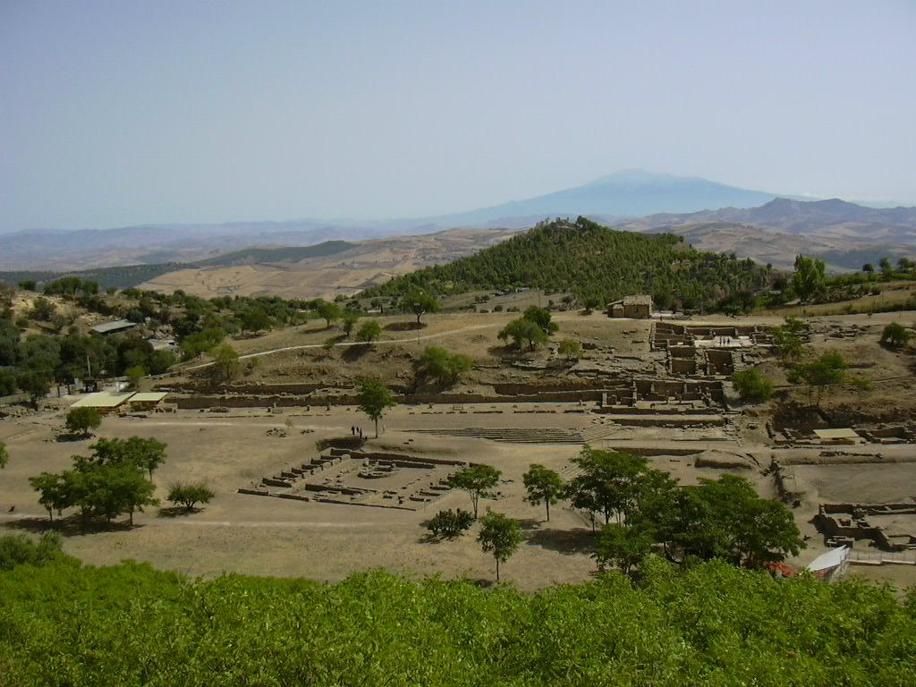 A view of Morgantina's Hellenistic agora. In the foreground the Macellum dating from the Roman period can be seen. In the background the Cittadella hilltop is visible, which was the location of Morgantina's Iron Age settlement. Mount Etna is seen in the far distance.